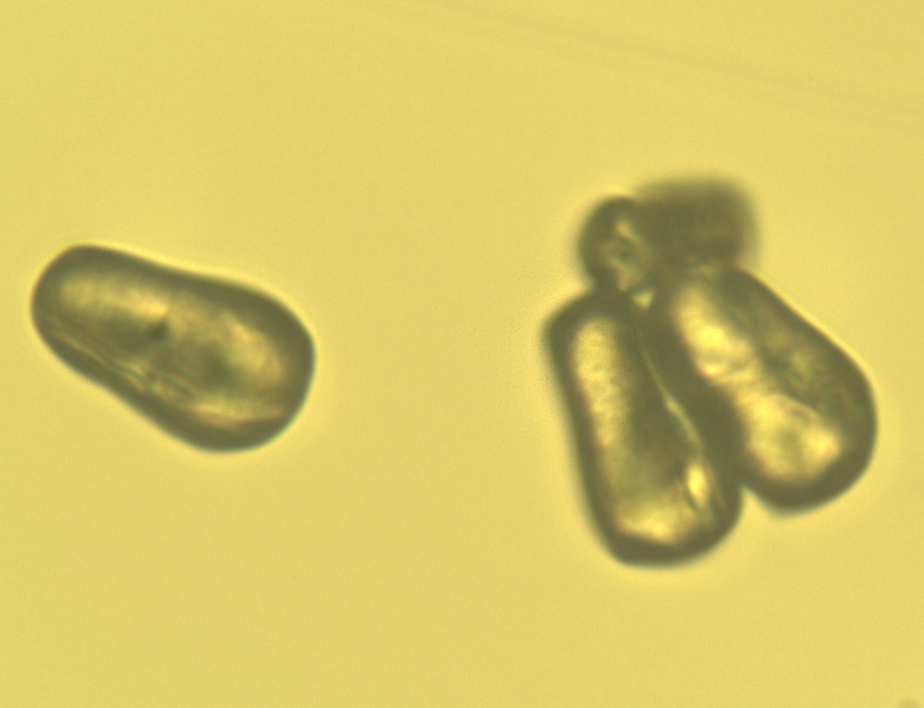 Echium vulgare Pollen 400x